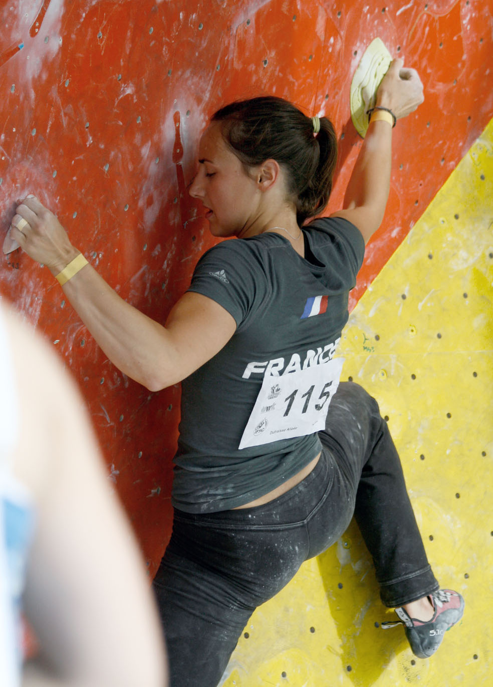 Alizée Dufraisse during qualifications at the IFSC Boulder Worldcup Vienna 2010.